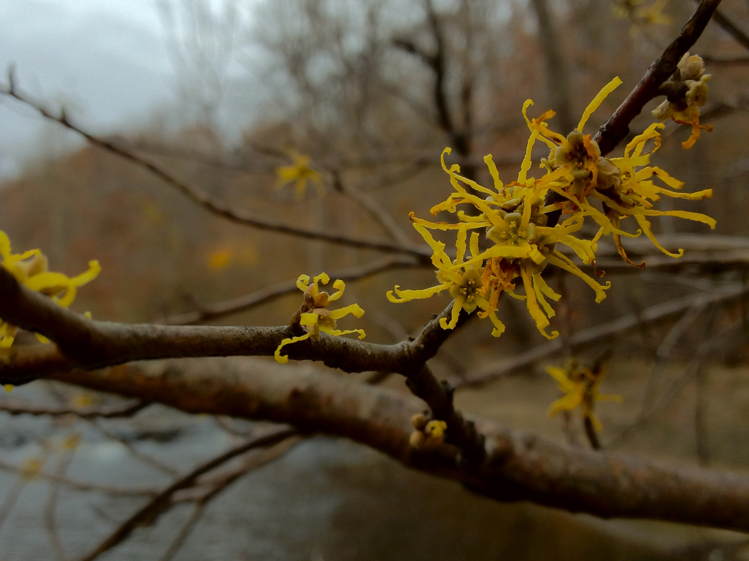 Photo of Hamamelis virginiana in flower. This is a native plant growing wild in Rock Creek Park, in Washington, D.C., USA. This species is a member of the Hamamelidaceae family.